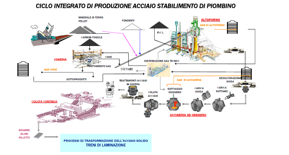 Ciclo profduttivo integrale